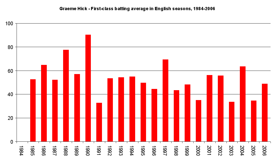 Graeme Hick's batting average in English seasons, 1984-2006